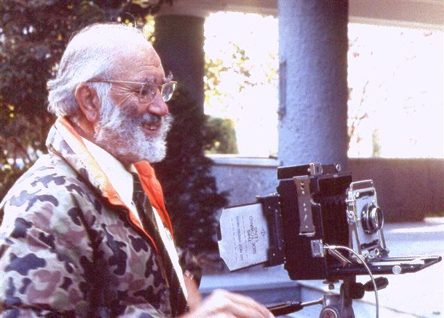 This photograph of Dr. Downs was taken by myself in 1977